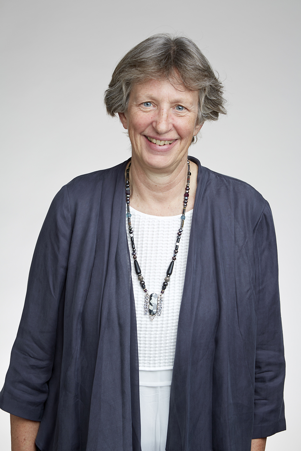 Katharine Venable Cashman FRS is an American volcanologist, Professor of Volcanology at the University of Bristo] and former Philip H. Knight Professor of Natural Science at the University of Oregon. Attribution: The Royal Society